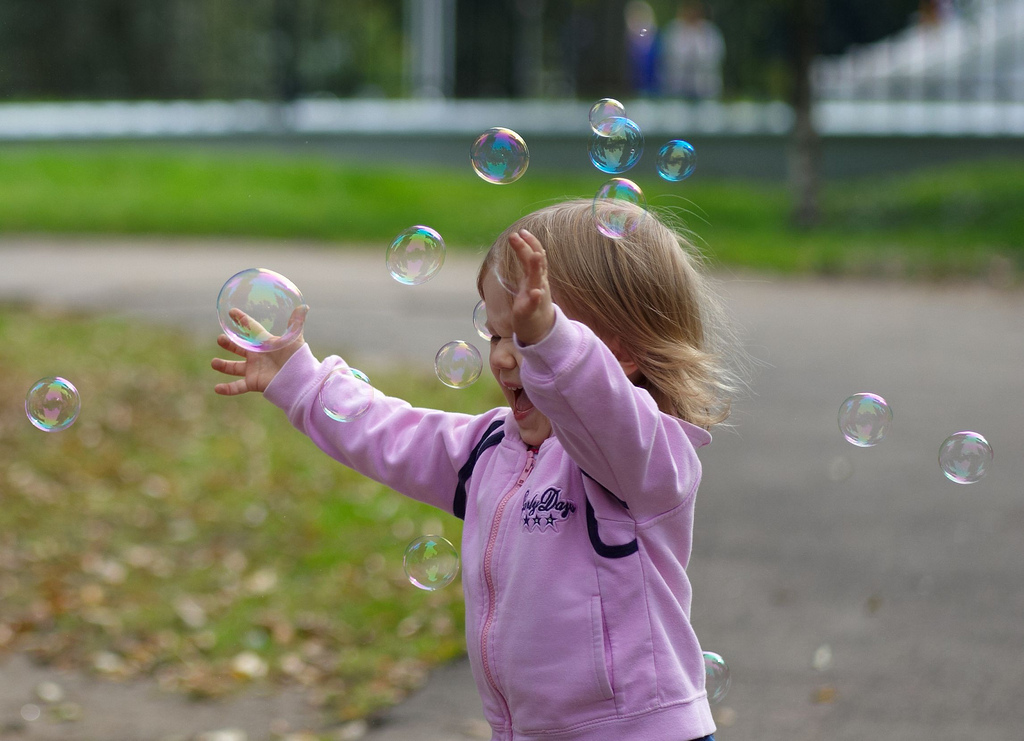 The hunter of happiness